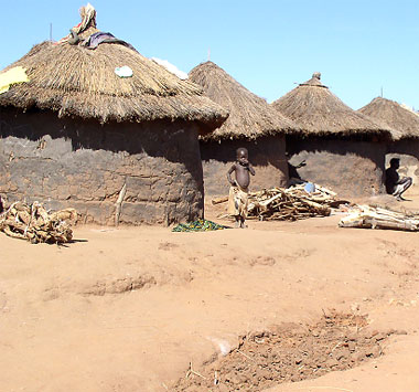 A lane in Labuje camp (for displaced internal refugees) near Kitgum town during the insurgency of the Lord's Resistance Army, in Kitgum District, Northern Region of Uganda. Original caption: A street in Labuje Camp.